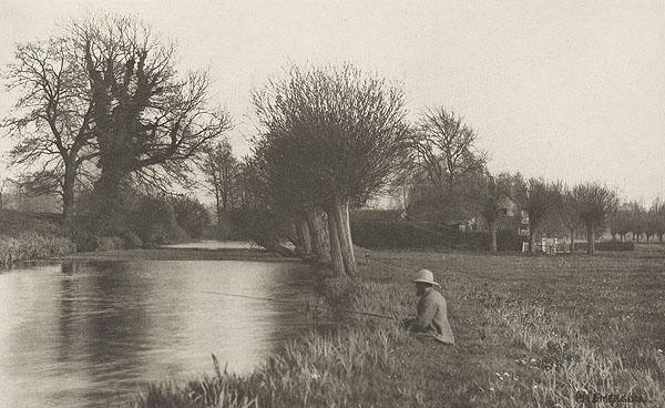 The Amwell Magna Fishery on the River Lea in Hertfordshire (1888). A fly fishing club, near the present day Amwell Nature Reserve.